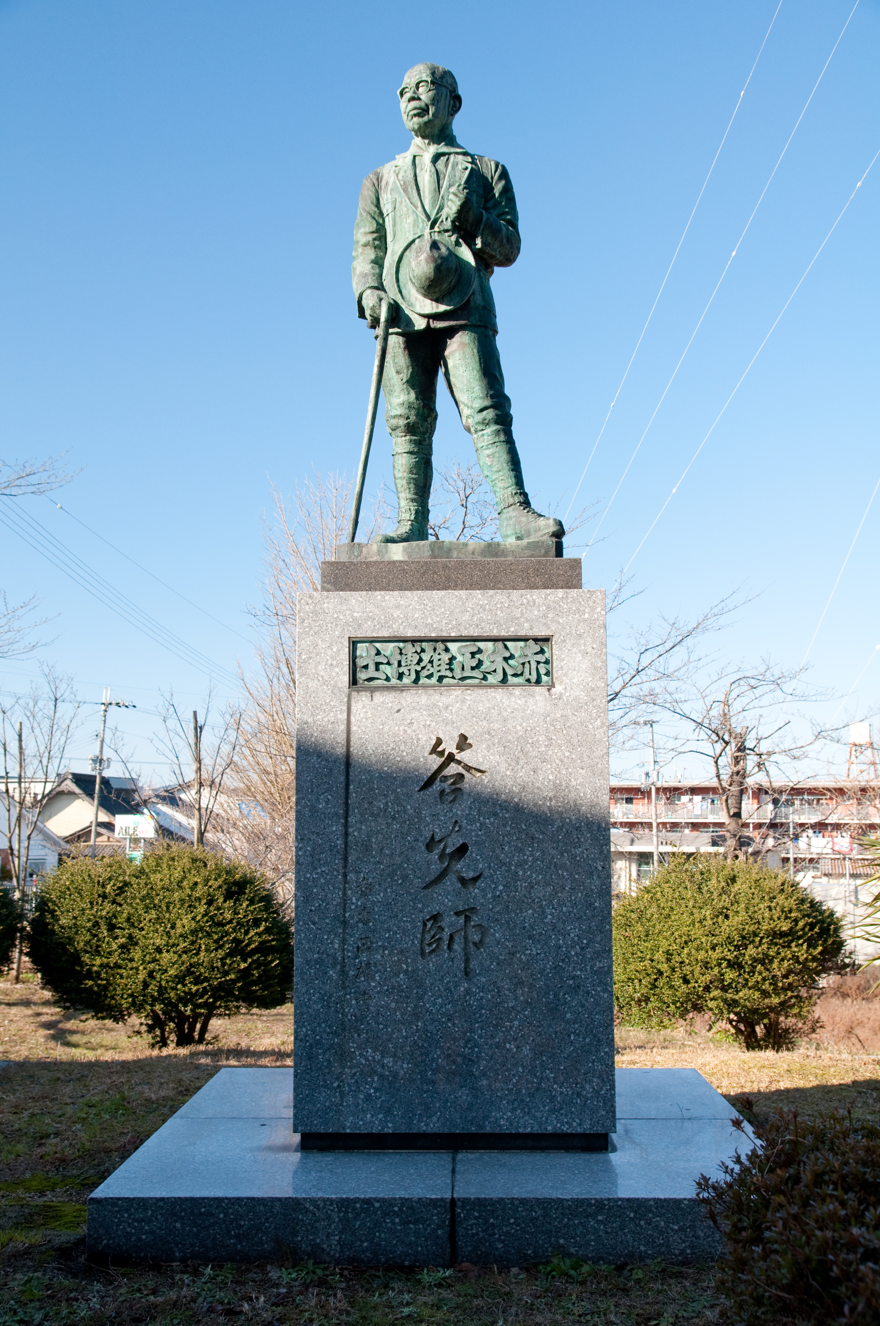 This is "Masao Akagi" bronze bronze statue.